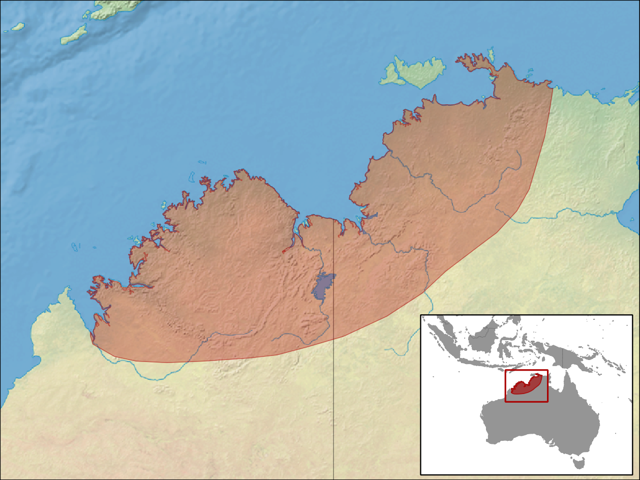 geographic distribution of Carlia gracilis